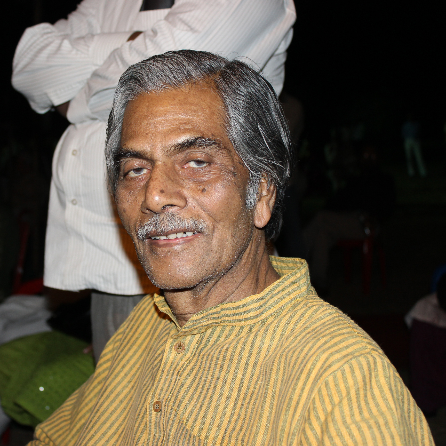 Sachida Nagdev (born October 25, 1939, in Ujjain, India) is a contemporary Indian artist.